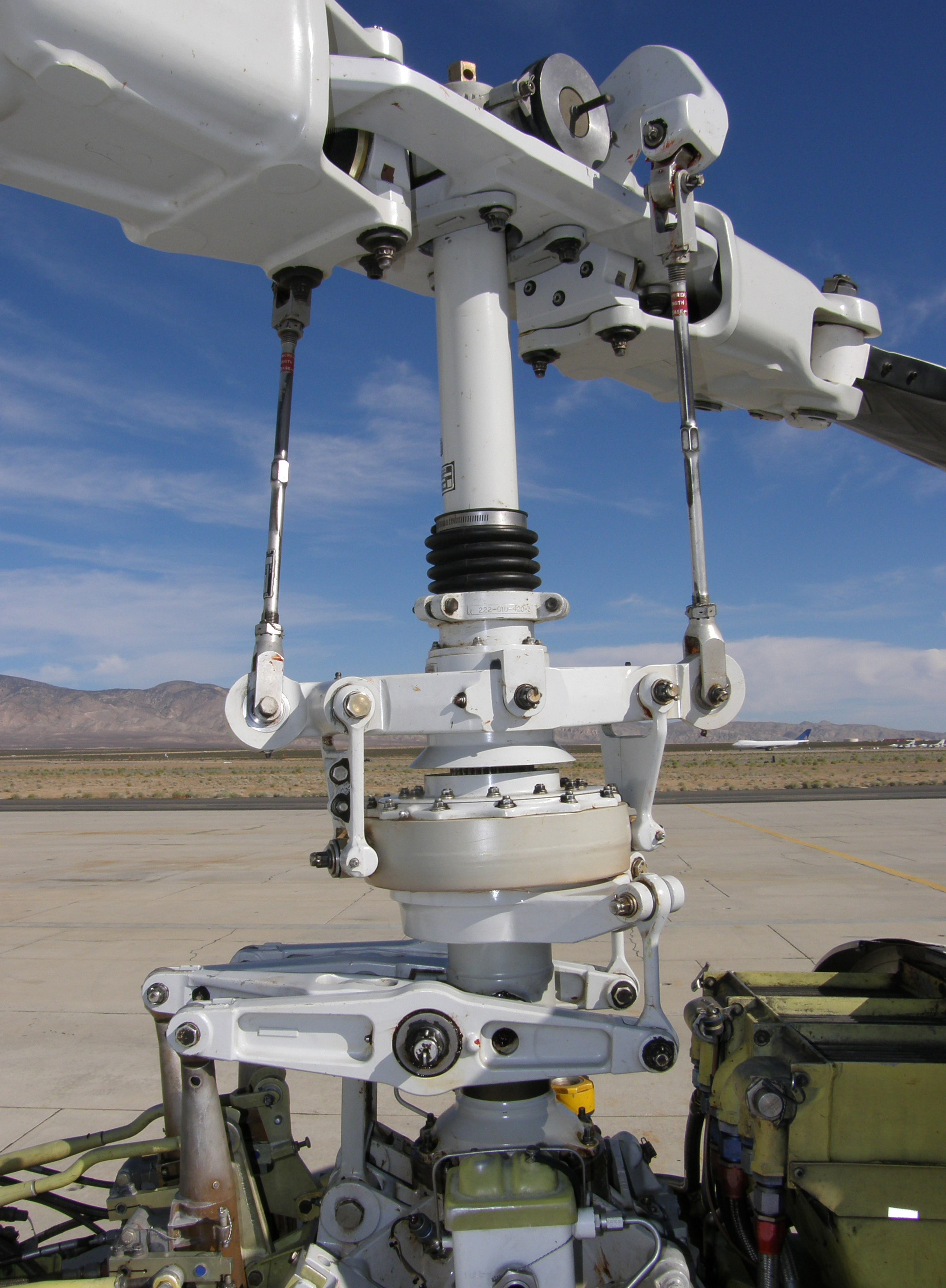 Rotor head and flight controls from a Bell 222U helicopter